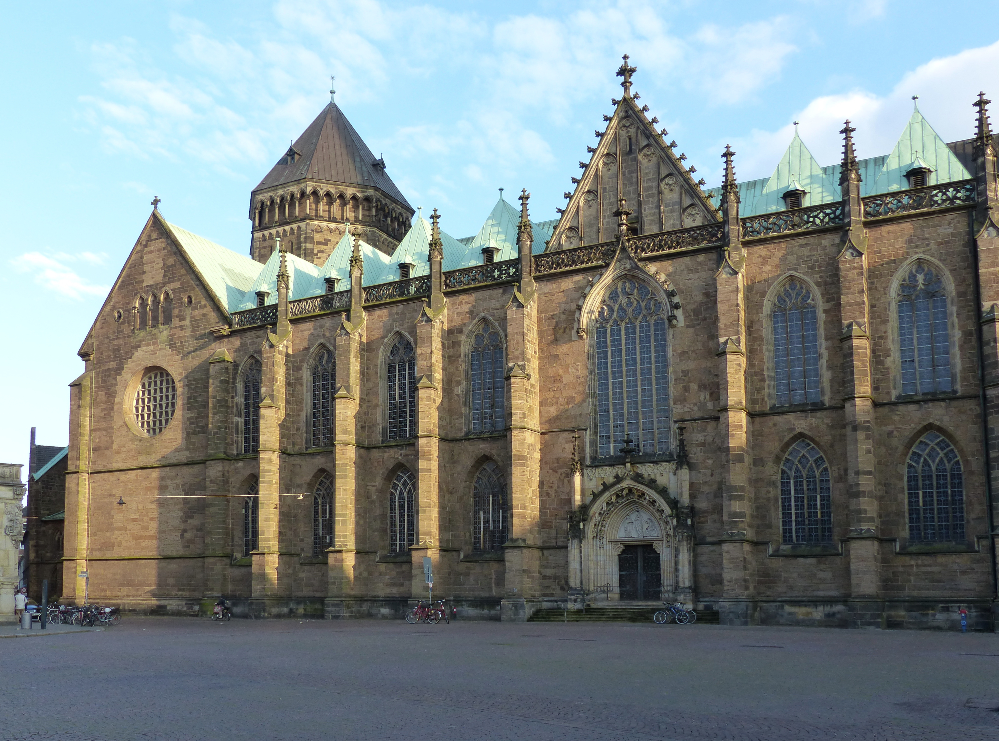 Naves of Bremen Cathedral from the Domshof square: northern aisle with the Bride Entrance, crossing tower, northern transept with a round window, a buttres of the choir